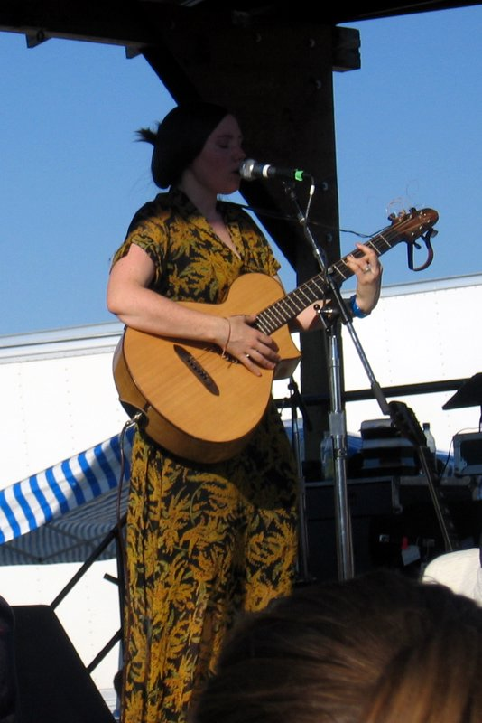 The Be Good Tanyas at the Sasquatch Music Festival on May 28, 2005.Be Good Tanyas